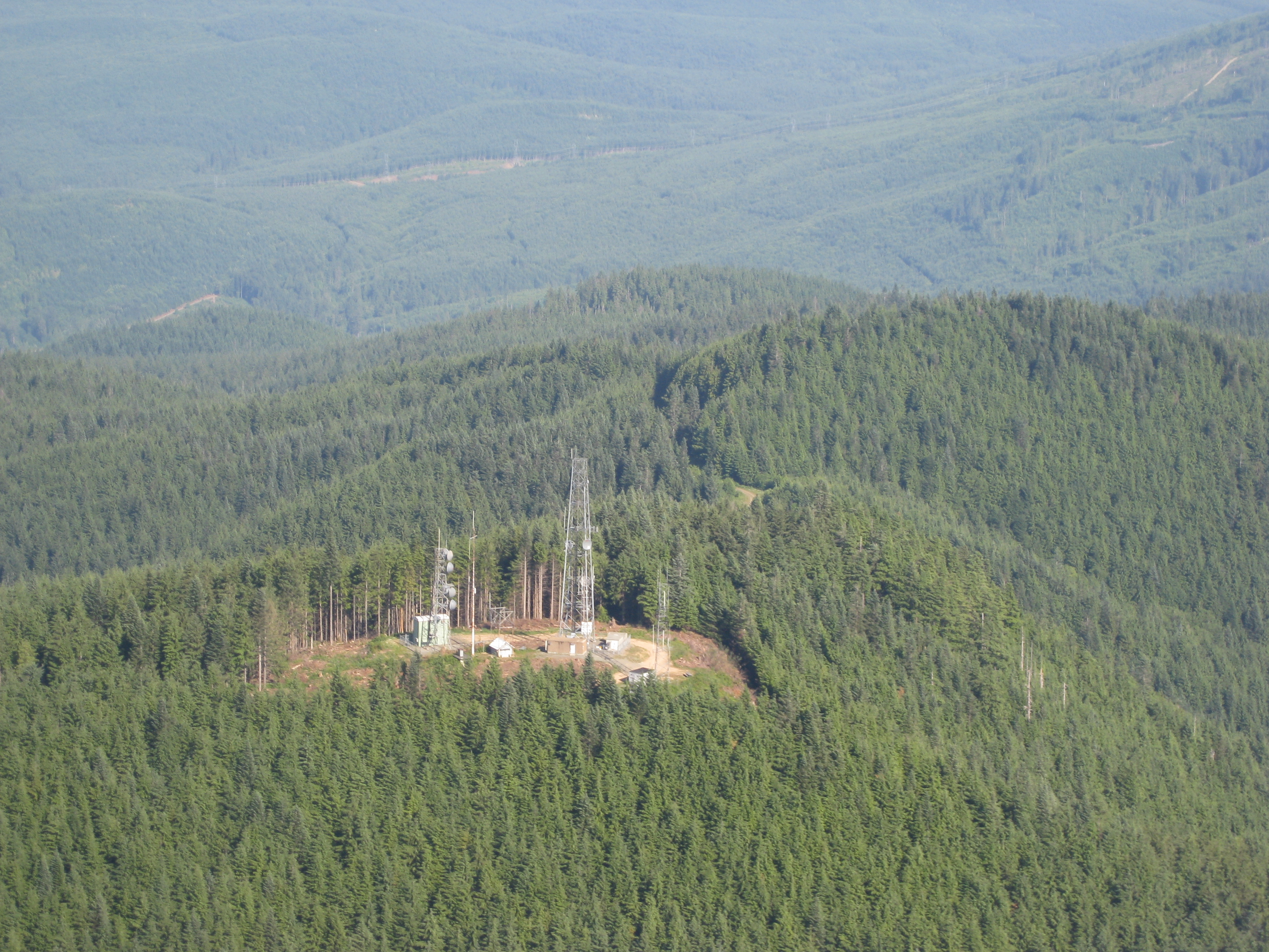 Radio broadcast and microwave antennas on Tiger Mountain, near Issaquah, Washington State. Elevation is 916 meters (3004 feet). Tiger Mountain, Washington 47.488393, -121.947043 3004 feet, 916 meters i072508 031